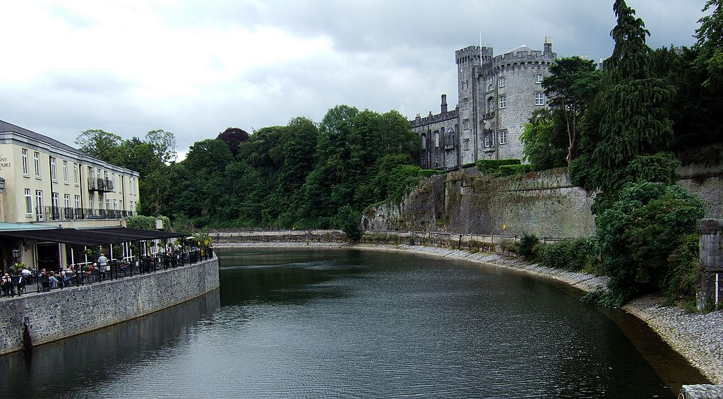 View of Kilkenny Castle in Ireland from John's bridge, with the castle overlooking the river Nore. Photo by Stevage (Wikipedia username).